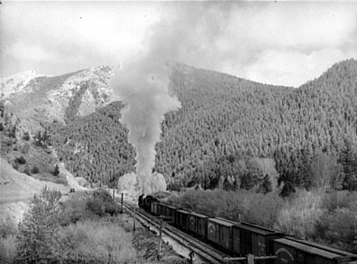 A Northern Pacific Railway freight train going over Bozeman Pass, Gallatin County, Montana.